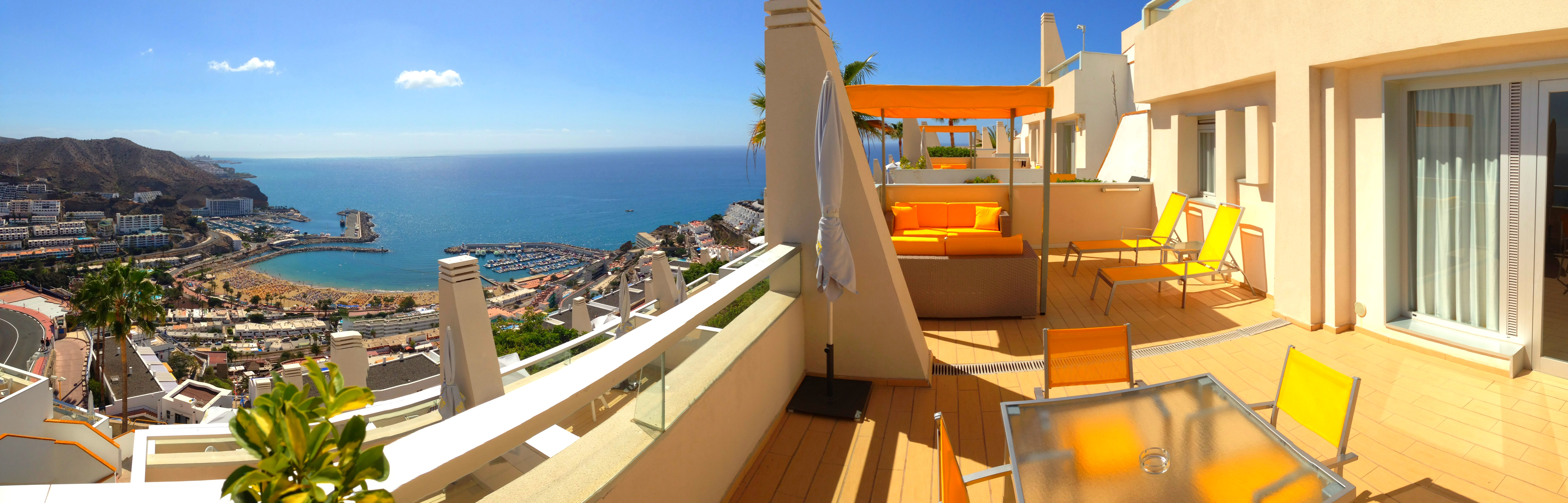 the clifftop-Hotel Riosol in Gran Canaria